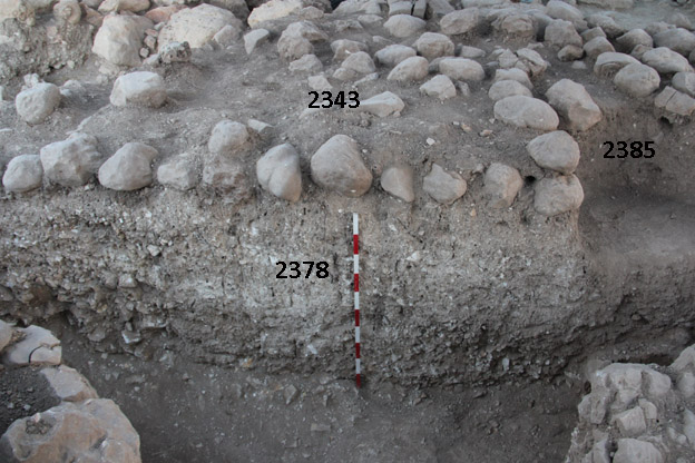 The rampart layers, capped by small-medium stones, looking north; note the later intrusive pits and stone silos (foreground) cut into the layers.